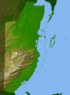 Shaded relief image of Belize created from Shuttle Radar Topography Mission (SRTM) data by NASA